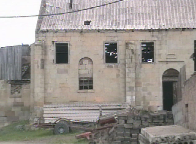 Sarchapet